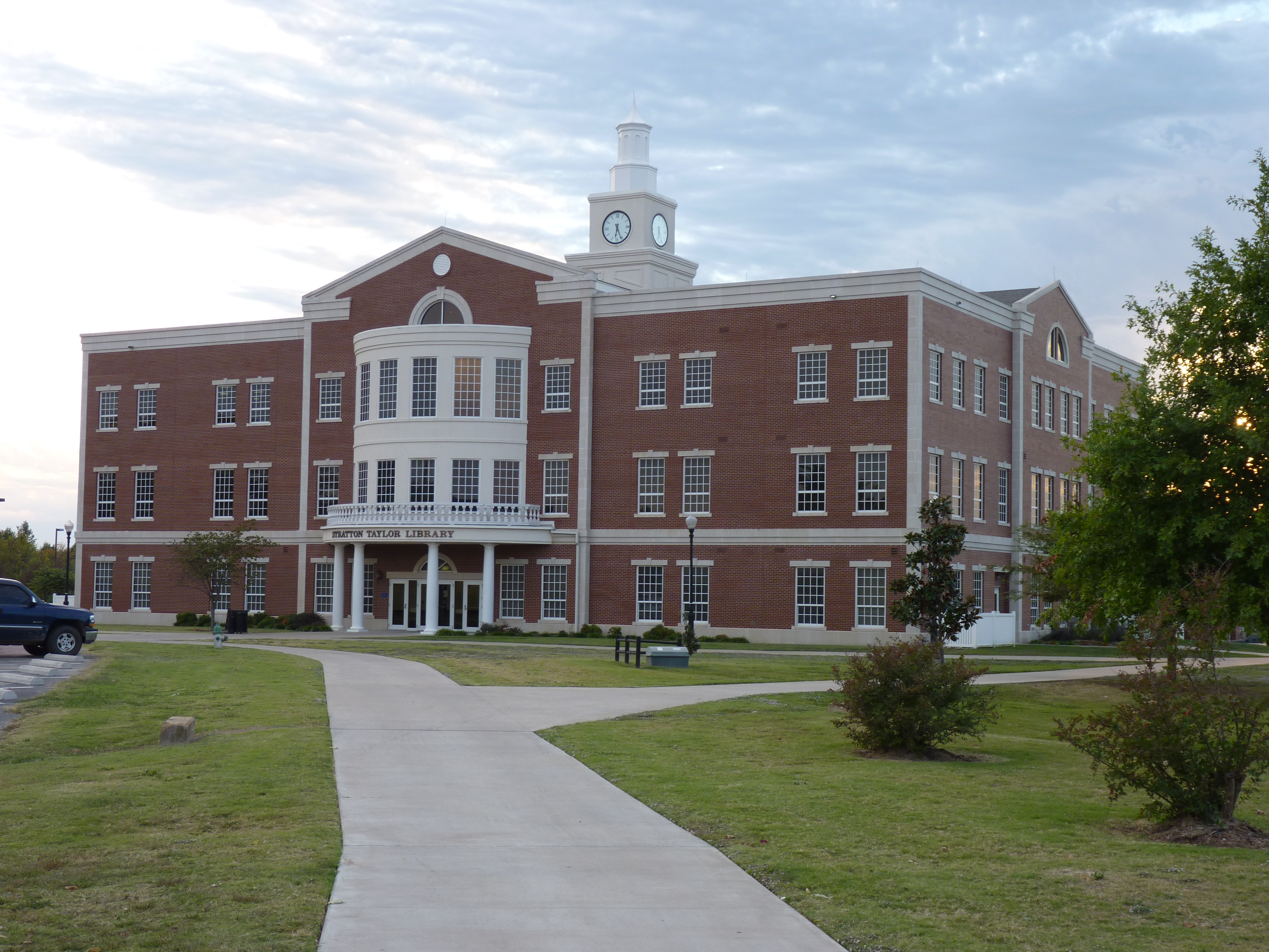 Stratton Taylor Library at Rogers State University in Claremore, Oklahoma, United States